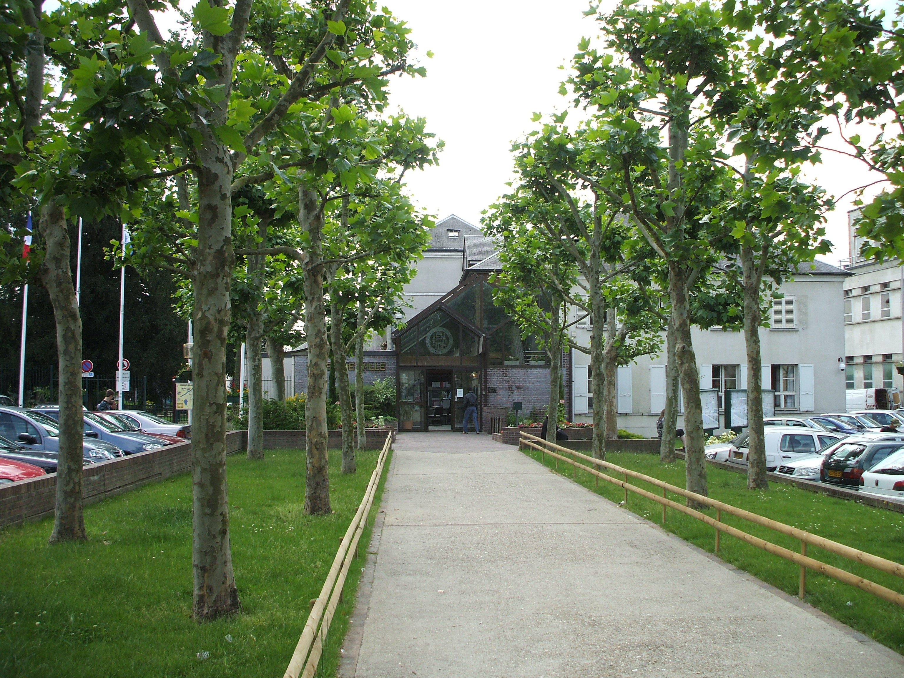 city hall of beaumont sur oise france